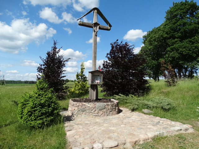 Maikūnai, Vilnius District, Lithuania